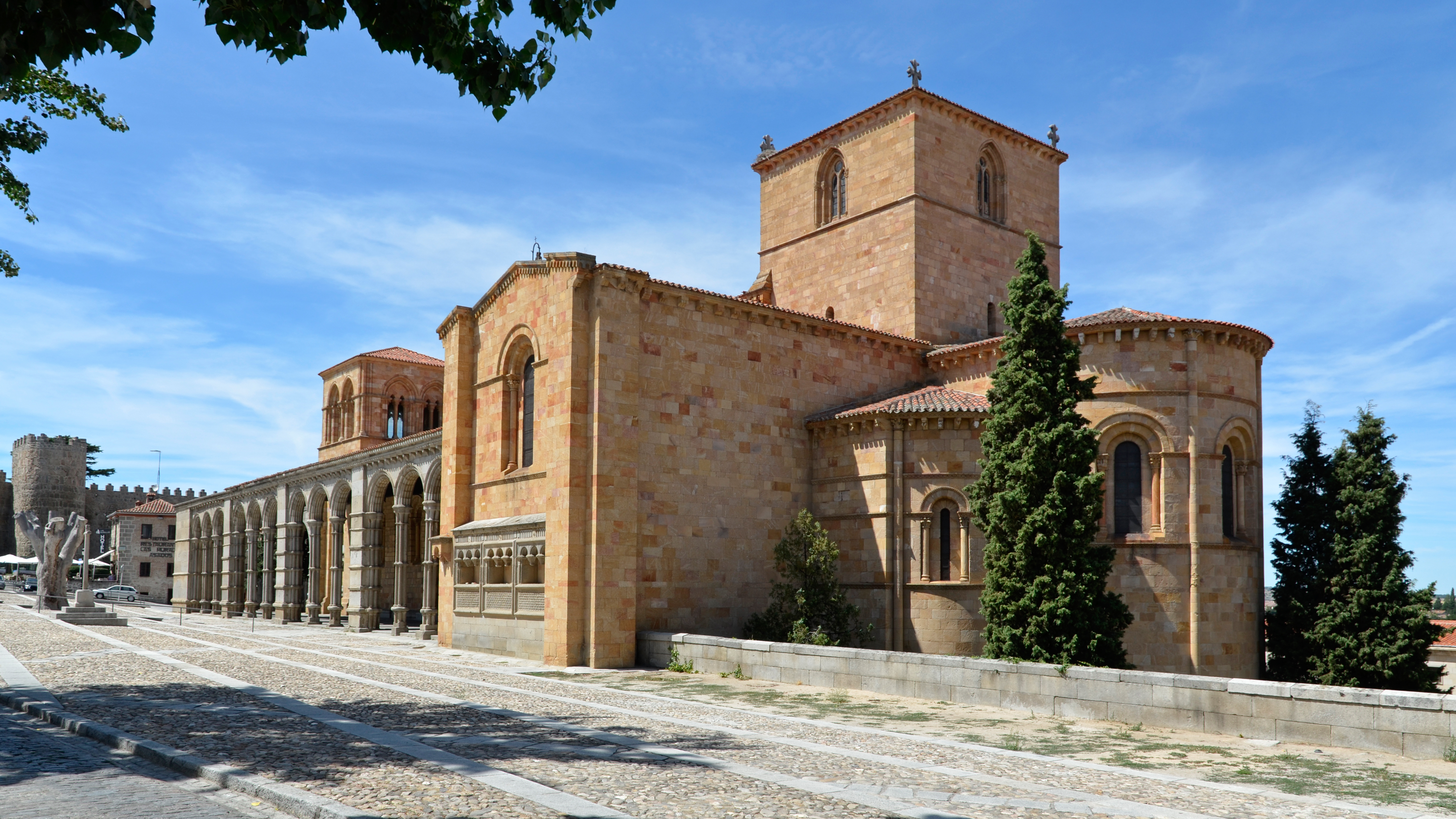 San Vicente church - Avila, Castile and León, Spain